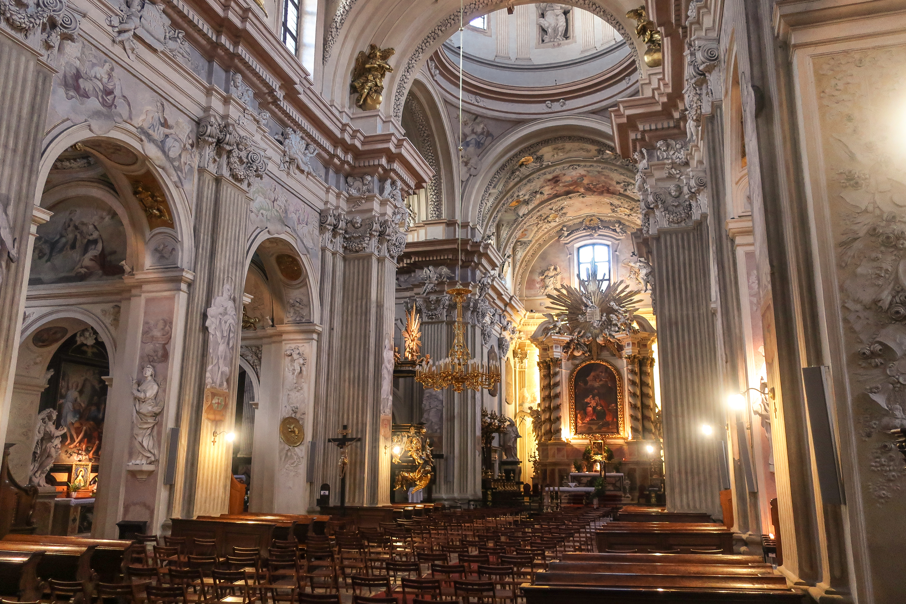 Interior of Saint Anne church in Kraków